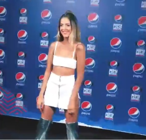 Corina Smith at the Tamanaco Commercial City Center, during the Pepsi Music Venezuela awards in 2018.